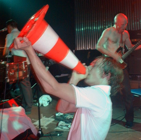 Bob hund live in Stockholm one year, using a traffic cone as a megaphone